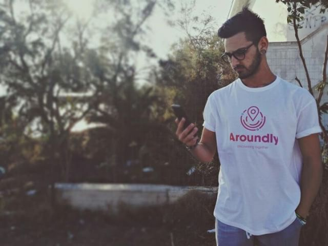 Andrea Gabriele, Aroundly app influencer, free Matera tourist guide Download Aroundly